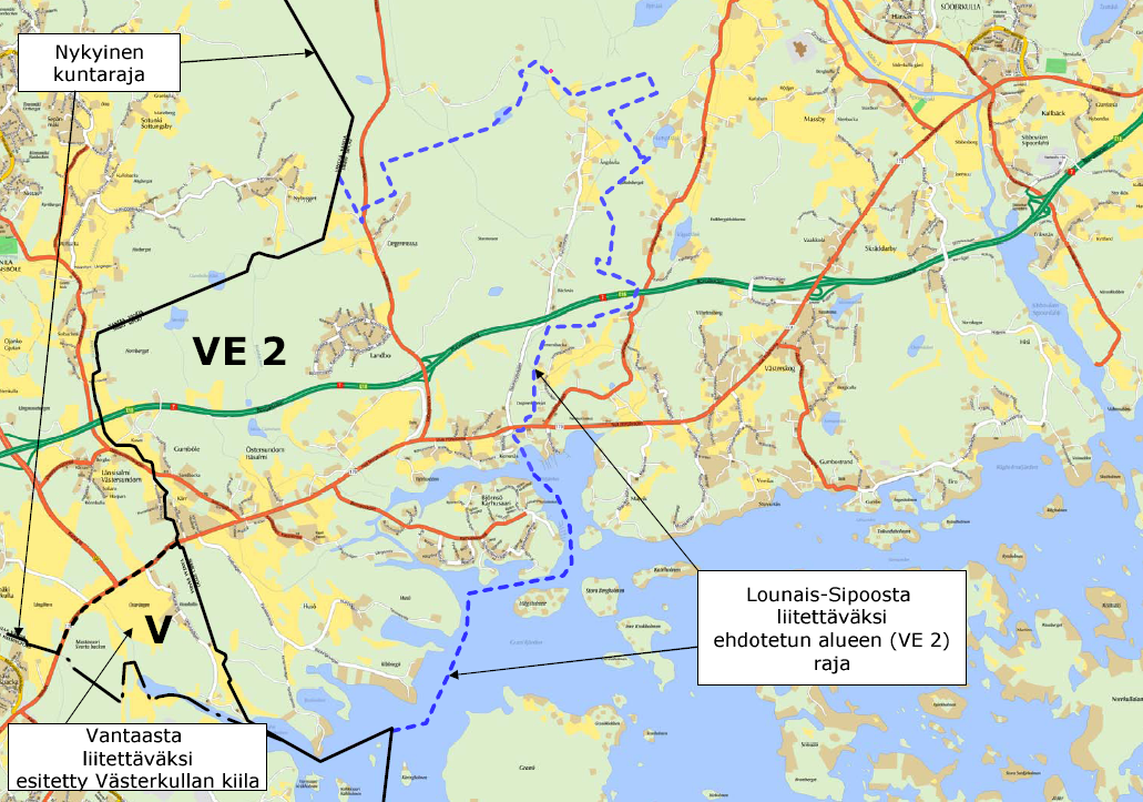 Areas of Sipoo and Vantaa which are to be moved to the city of Helsinki according to the Council of State decision on 28th June 2007